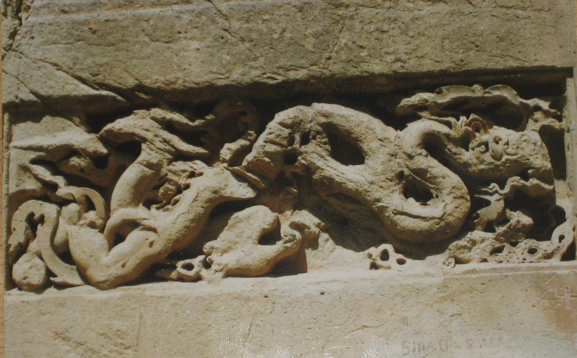 Dragon,Viyar Temple,Zanjan province,Iran